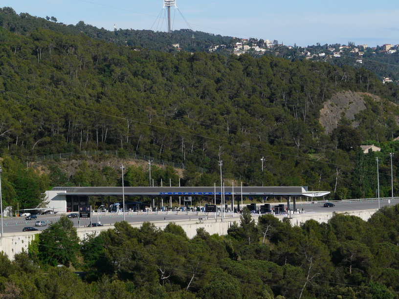 Vallvidrera Tunnel toll, near Barcelona